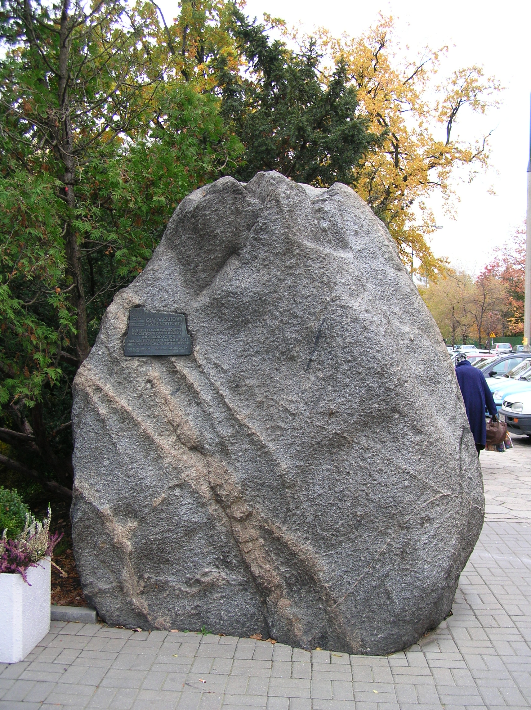 Glacial erratic (granite) in the Polish_Geological_Institute, Warsaw